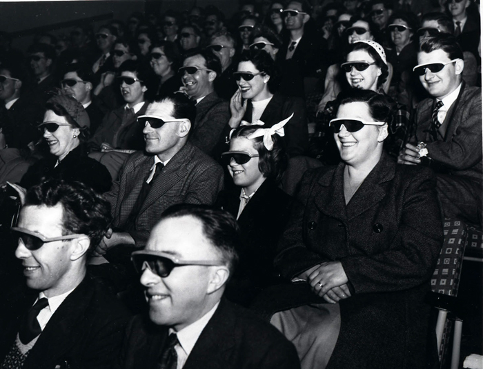 Description: Audience wearing special glasses watch a 3D "stereoscopic film" at the Telekinema on the South Bank in London during the Festival of Britain Date: 11th May 1951 Our Catalogue Reference: WORK 25/208